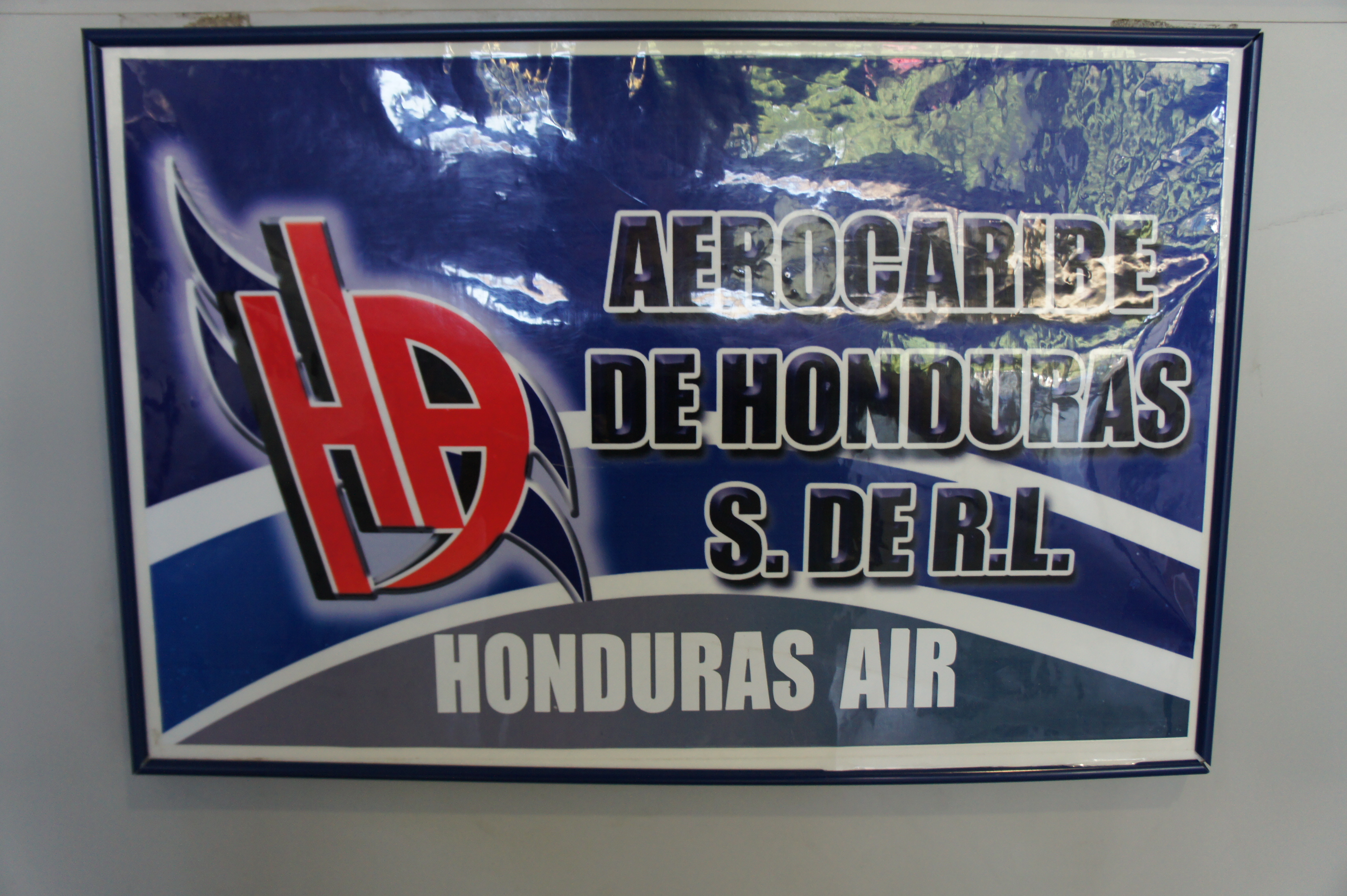 AeroCaribe de Honduras old logo at checkin counter, San Pedro Sula, November 2011